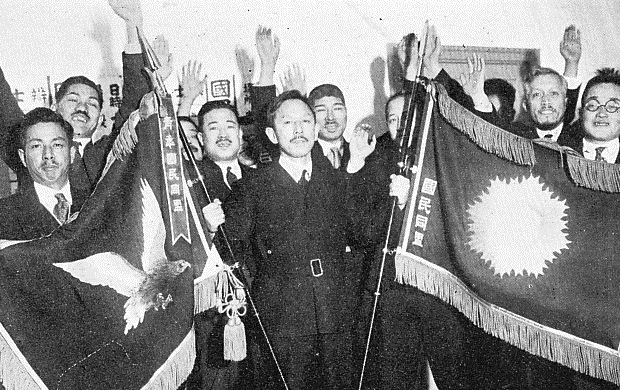 Kokumin Domei